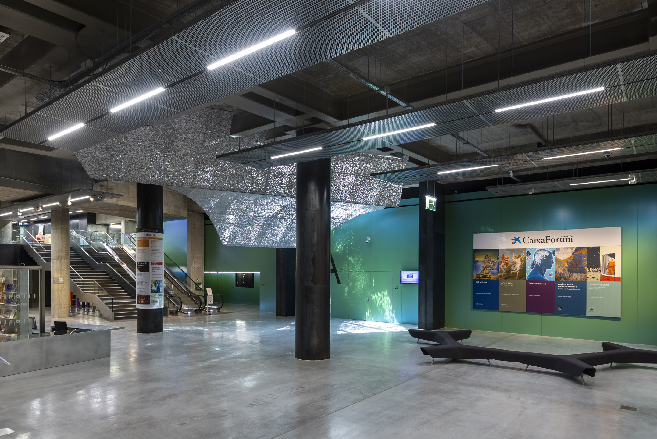 fotografia de Anna Elias Tf.0034 600427541